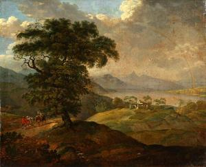 Mountain Landscape with Travellers